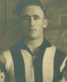 Photo of Pat Fricker in 1935